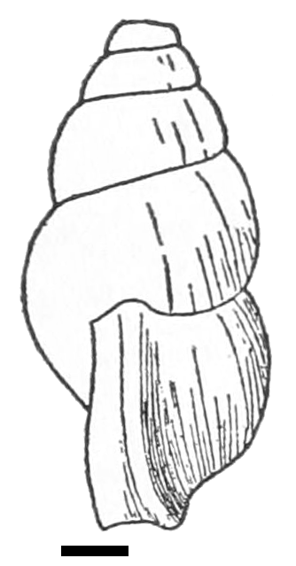 drawing of lateral view of a shell of Blanfordia japonica. The scale is 1 mm.